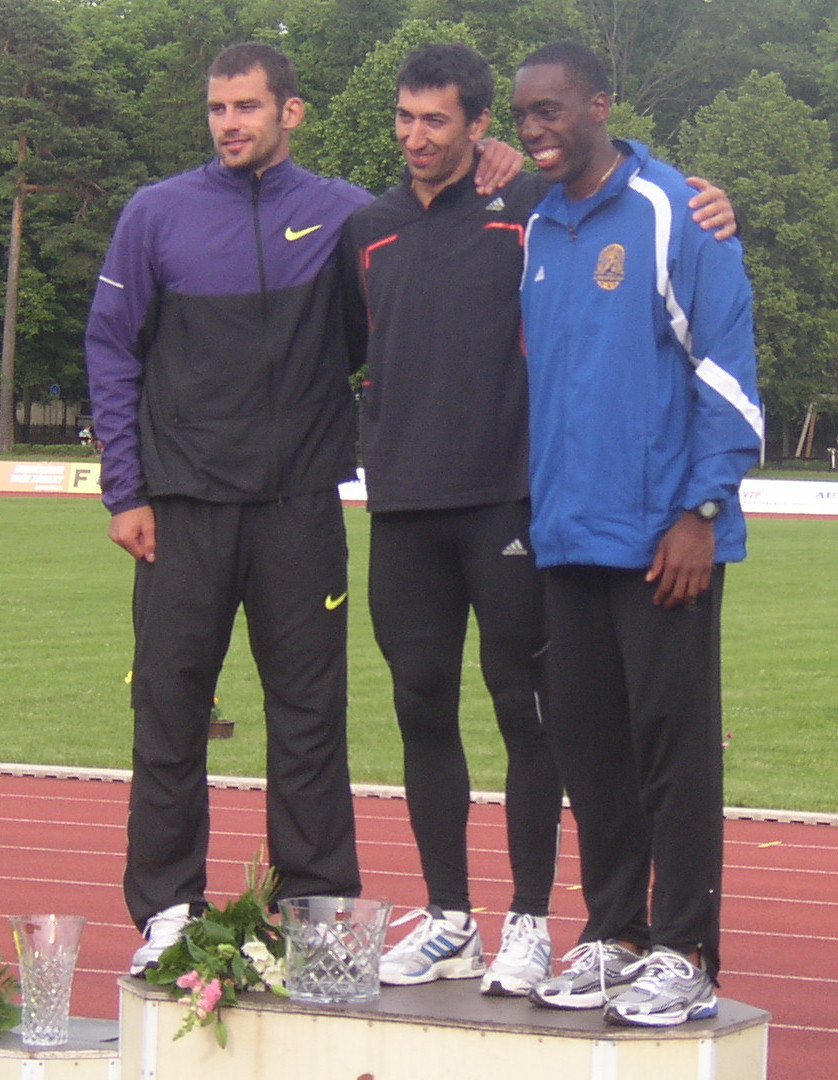 Top three athletes in men's decathlon after victory ceremony at 4th edition of the TNT - Fortuna Meeting (IAAF World Combined Events Challenge Meeting, Sletiště Stadium, Kladno, Czech Republic, 16 June 2010, 18:59). left to right: Aleksey Drozdov (RUS) 8246 points, 2nd place Oleksiy Kasyanov (UKR) 8381 points, 1st place Jamie Adjetey-Nelson (CAN) 8239 points, 3rd place